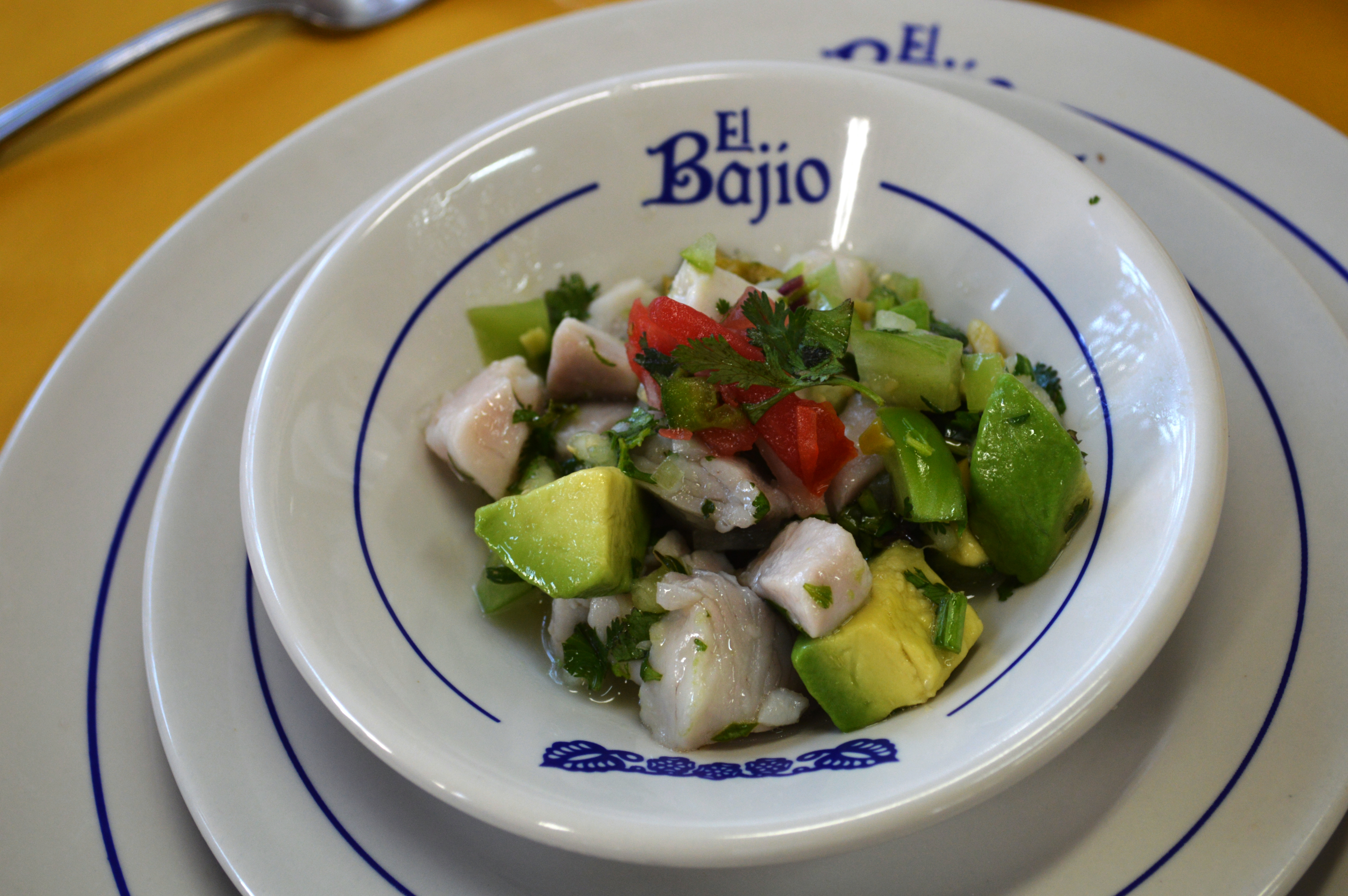 Ceviche verde served at the El Bajió restaurant in Azcapotzalco, Mexico City